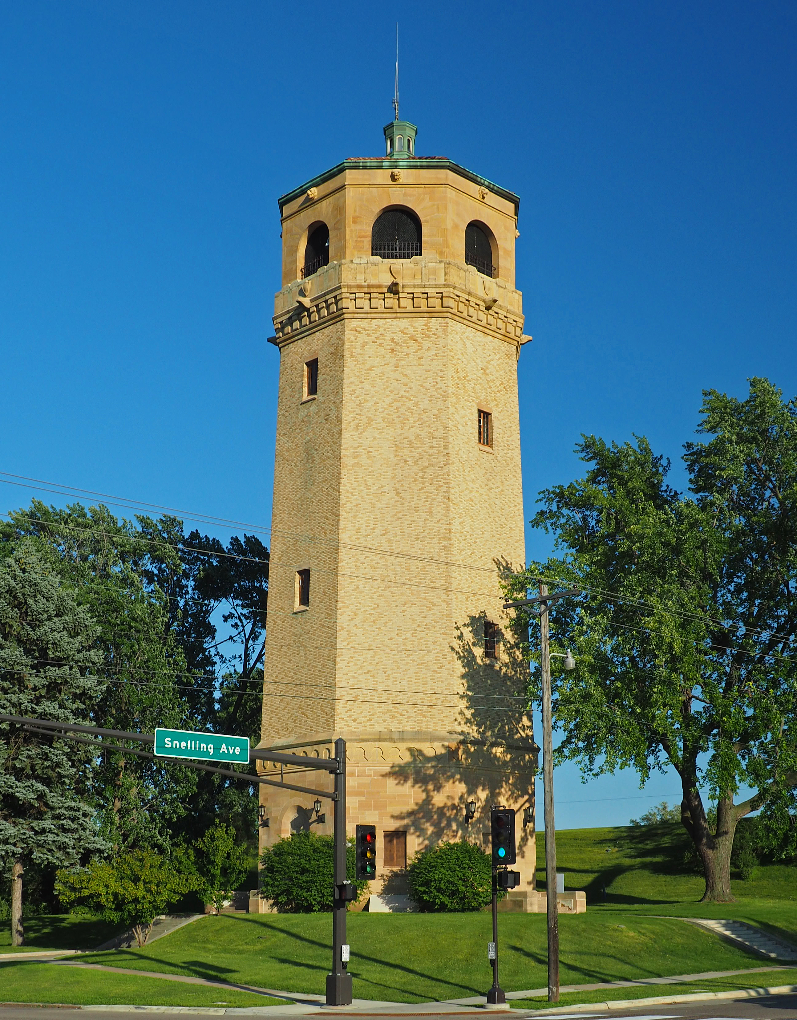 Highland Park Water Tower, 1570 Highland Pkwy, St Paul, Minnesota. USA. Viewed from the northwest.